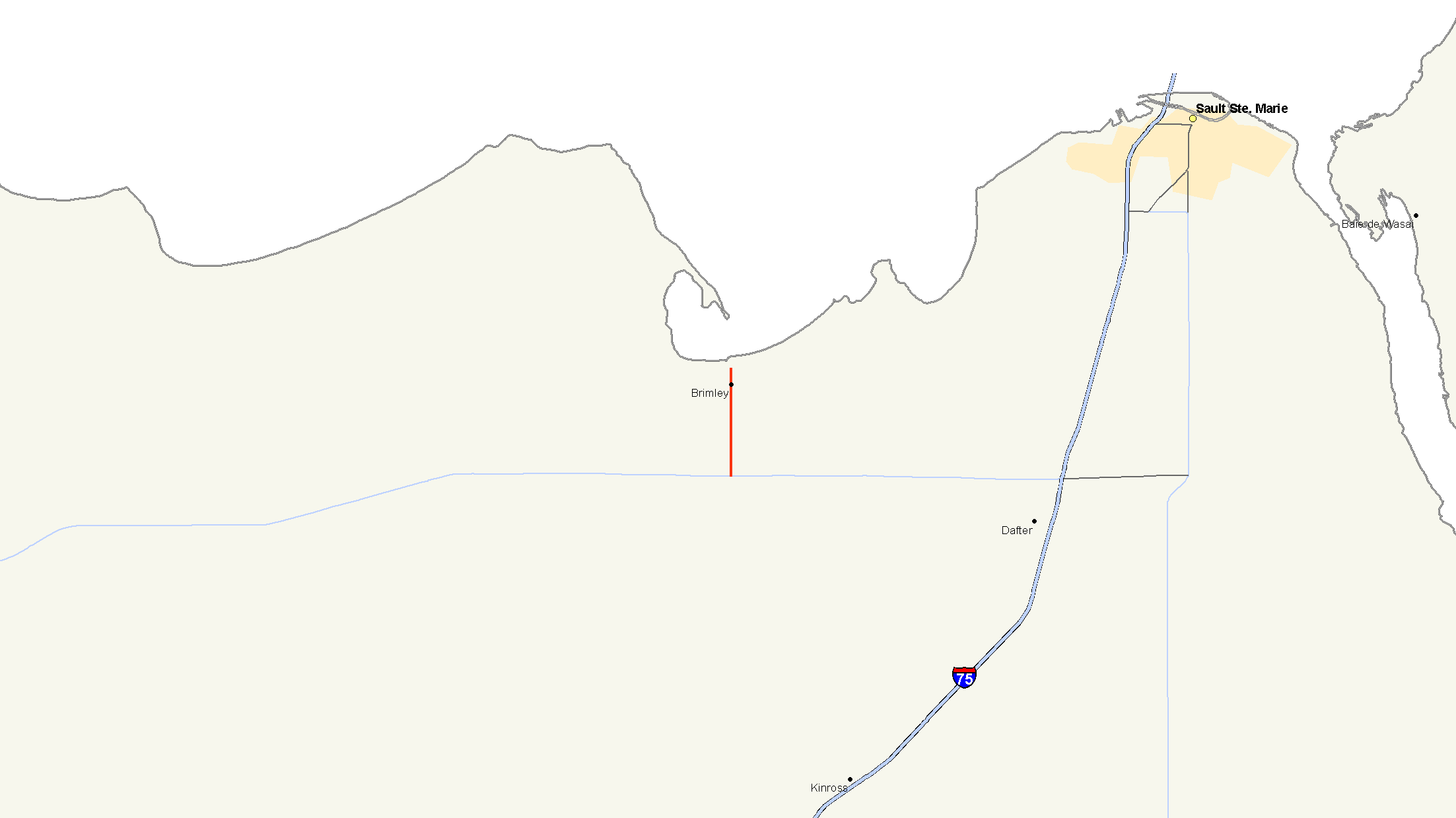 Map of M-221